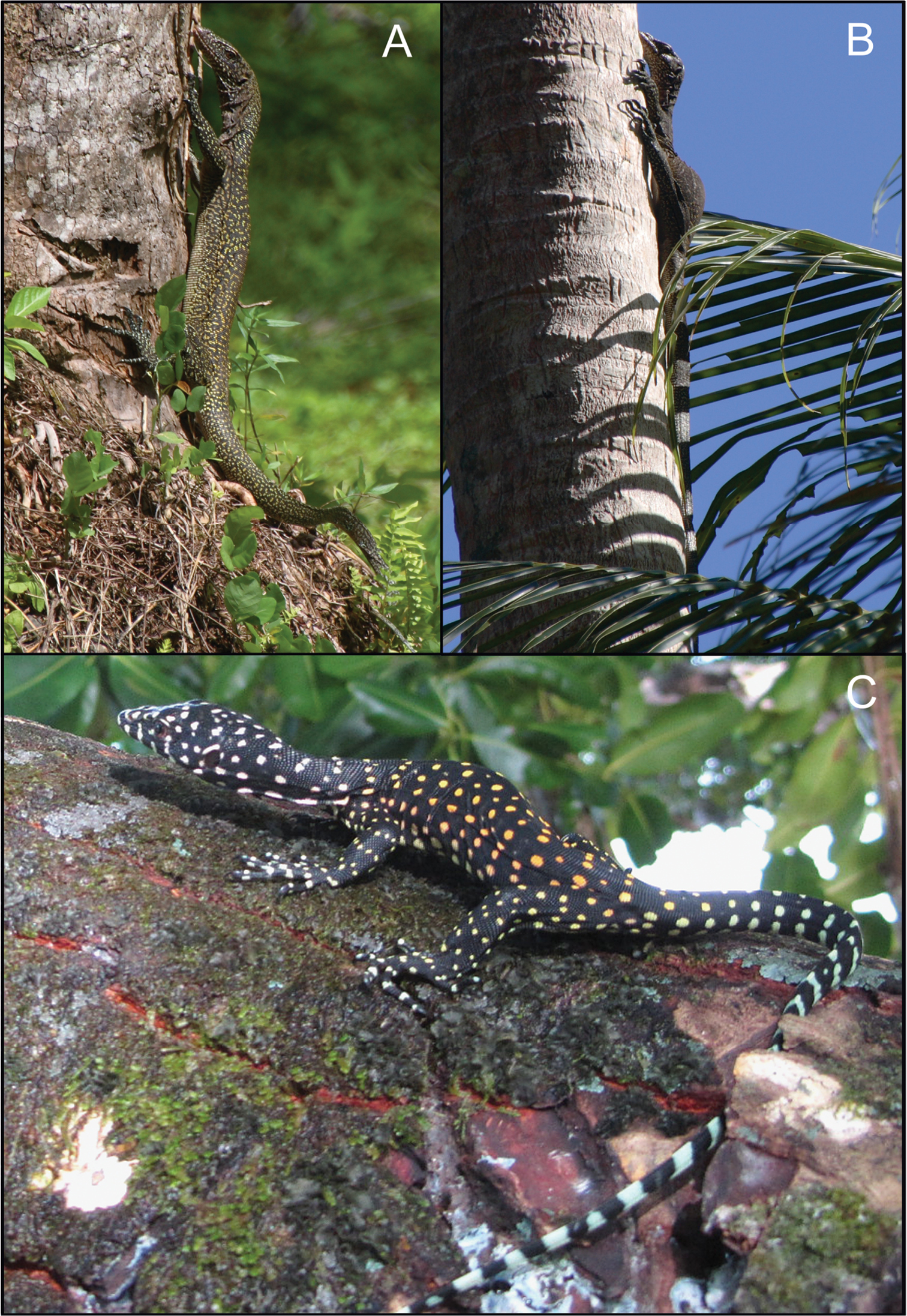 A–C Images of live V. semotus at Nai on Mussau Island. A an adult in its habitat at the outskirts of Nai B an adult basking on the trunk of a palm tree, and C a juvenile